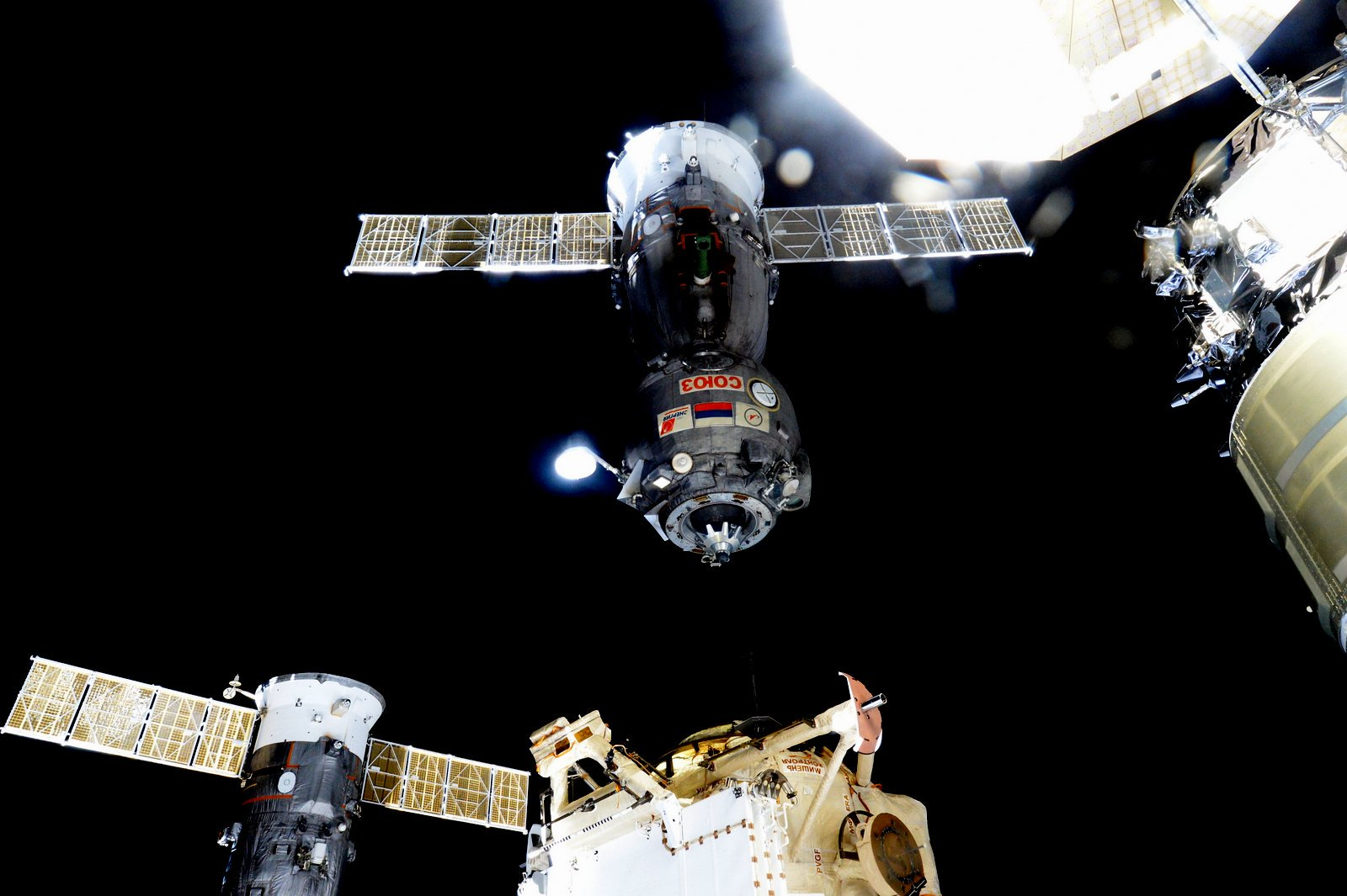 Fair winds and following seas my friends! Safe landing @astro_kjell, @Astro_Kimiya, & Oleg! #YearInSpace Expedition 46 Commander Scott Kelly of NASA captured this image from aboard the International Space Station, of the Dec. 11, 2015 undocking and departure of the Soyuz TMA-17M carrying home Expedition 45 crew members Kjell Lindgren of NASA, Oleg Kononenko of the Russian Federal Space Agency and Kimiya Yui of the Japan Aerospace Exploration Agency (JAXA) after their 141-day mission on the orbital laboratory. They landed safely in Kazakhstan at approximately 8:12 a.m. EST (7:12 p.m. Kazakhstan time). Expedition 46 continues operating the station, with Kelly in command. Along with Mikhail Kornienko and Sergey Volkov of Roscosmos, the three-person crew will operate the station for four days until the arrival of three new crew members. NASA astronaut Tim Kopra, Russian cosmonaut Yuri Malenchenko and Tim Peake of ESA (European Space Agency) are scheduled to launch from Baikonur, Kazakhstan, on Dec. 15.